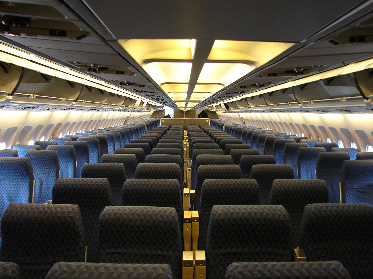 A look at the economy section of the Airbus A300, all I have to say is that this airbus is a whole different ball game from its 320 family sisters... smooth, quiet in flight, solid ride and of course oodles of power from those CF6's!!